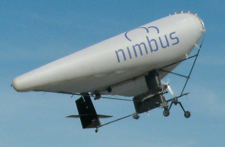 Air vehicle in metaplane configuration